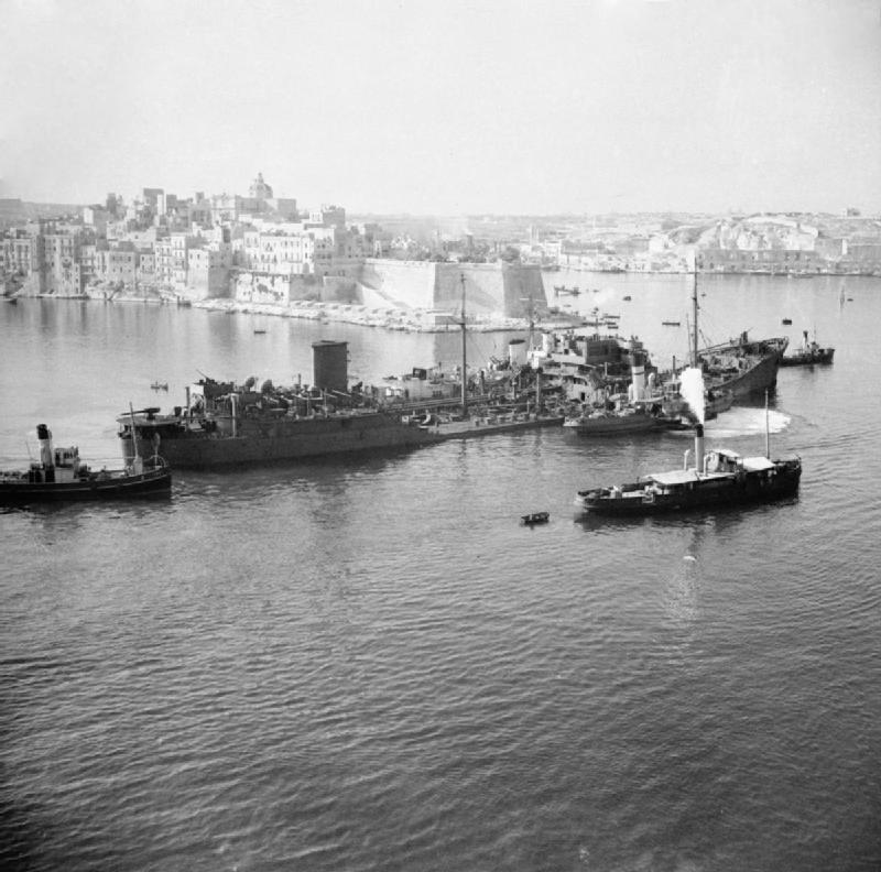 The damaged tanker OHIO, supported by Royal Navy destroyers, approaches Malta after an epic voyage across the Mediterranean as part of convoy WS21S (Operation Pedestal) to deliver fuel and other vital supplies to the besieged island. OHIO's back was broken and her engines failed during heavy German and Italian attacks. Because of the vital importance of her cargo (10,000 tons of fuel which would enable the aircraft and submarines based at Malta to return to the offensive), she could not be abandoned. In a highly unusual manoeuvre, two destroyers supported her to provide buoyancy and power for the remainder of the voyage. The OHIO's captain was subsequently awarded the George Cross. The OHIO itself was sunk outside the harbour after discharging its cargo.